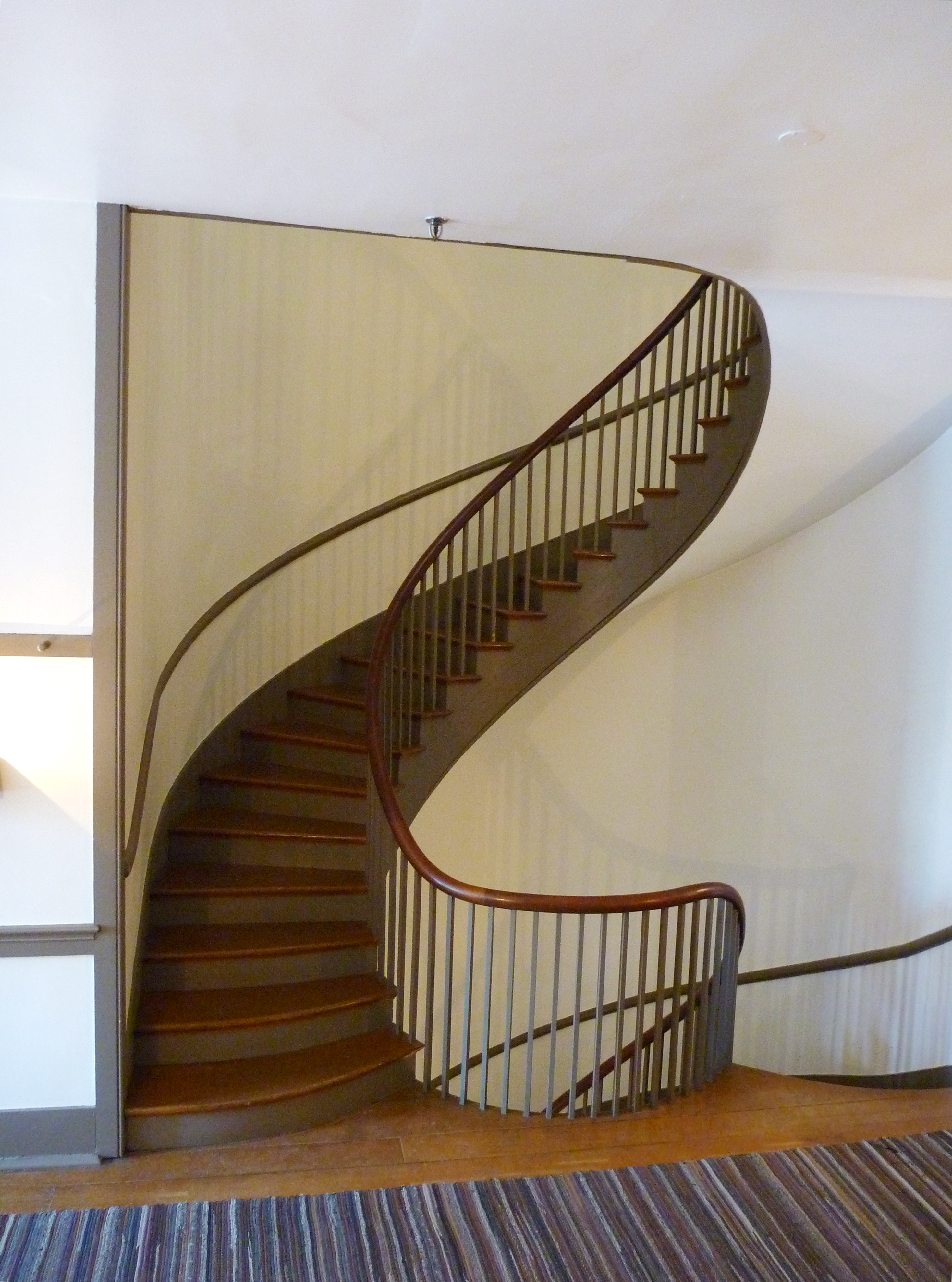 The spiral staircase of the Shaker Centre Family Trustees' Office (Shaker guest house) in 1939. The sinuous stair has a twin on the other side of the corridor. At the Pleasant Hill Shaker Centre, on Village Road, Pleasant Hill, Mercer County, Kentucky. Image courtesy the federal HABS—Historic American Buildings Survey of Kentucky project.